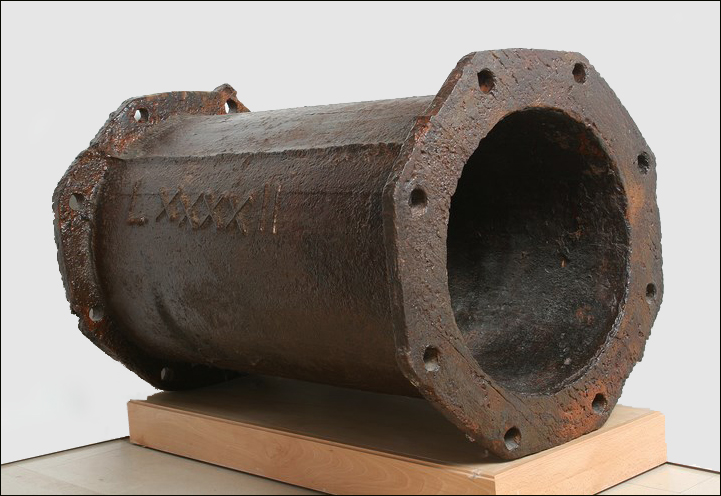 Marly Machines. Pipe element of the first machine.